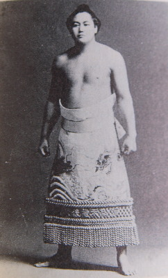 Taken while Tenryu was still an active wrestler - he was expelled in 1932, so it well within public domain parameters